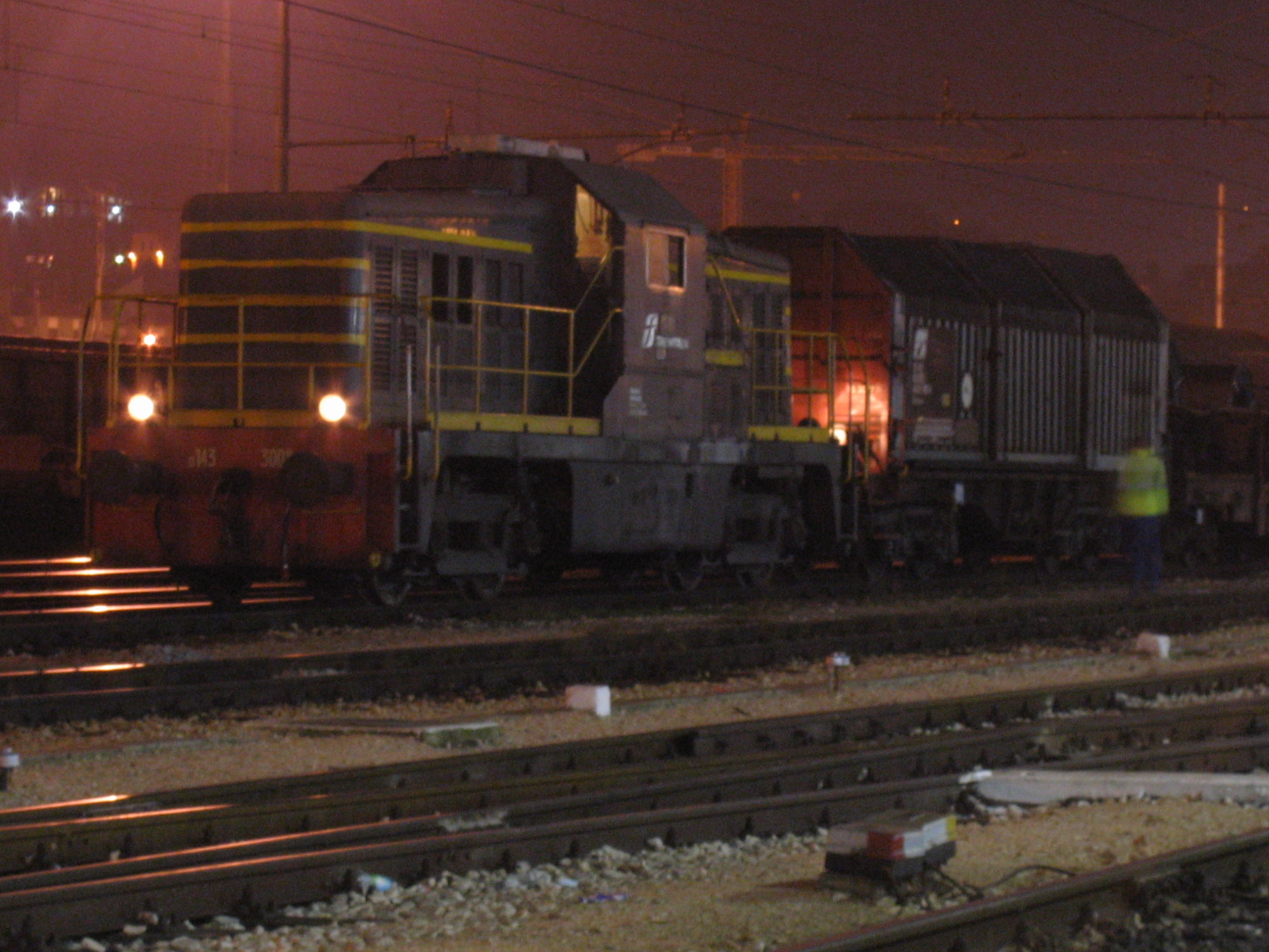 FS D.143.3003 shunter coupling to a railtruck. Photo taken in Terni, Italy